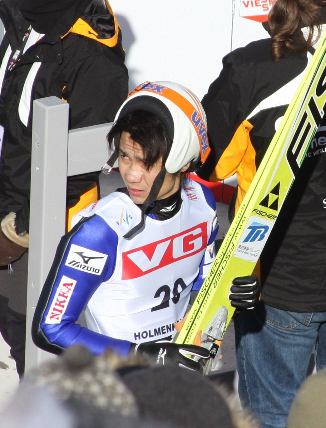 Fumihisa Yumoto (JPN) in WC Oslo, Holmenkollen, 14 march 2010